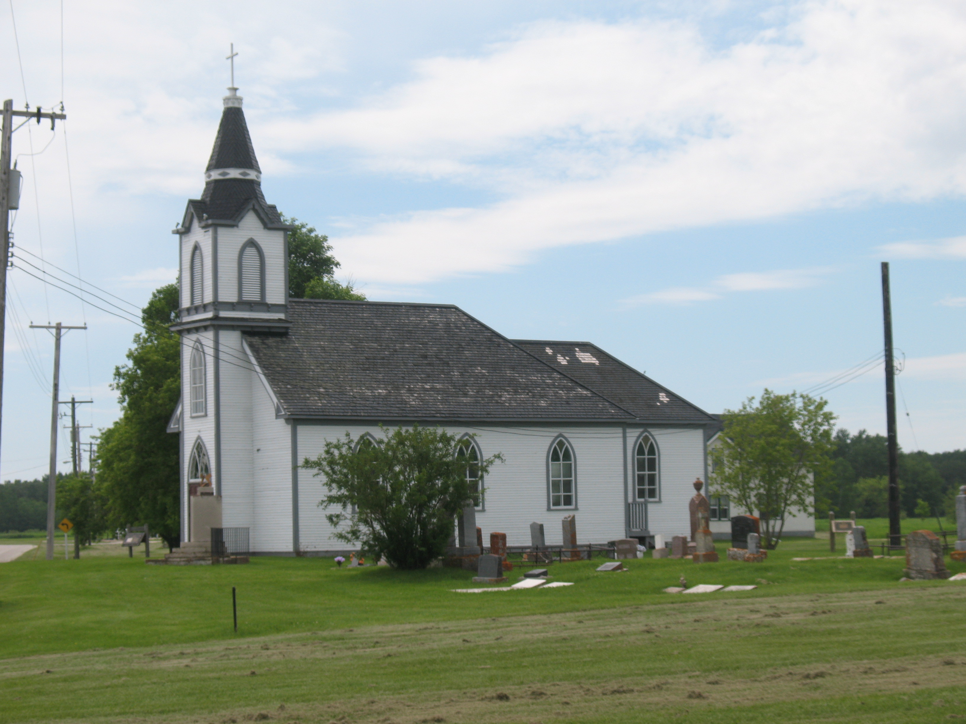 The church of Hecla Village on Hecla Island, Manitoba, Kanada